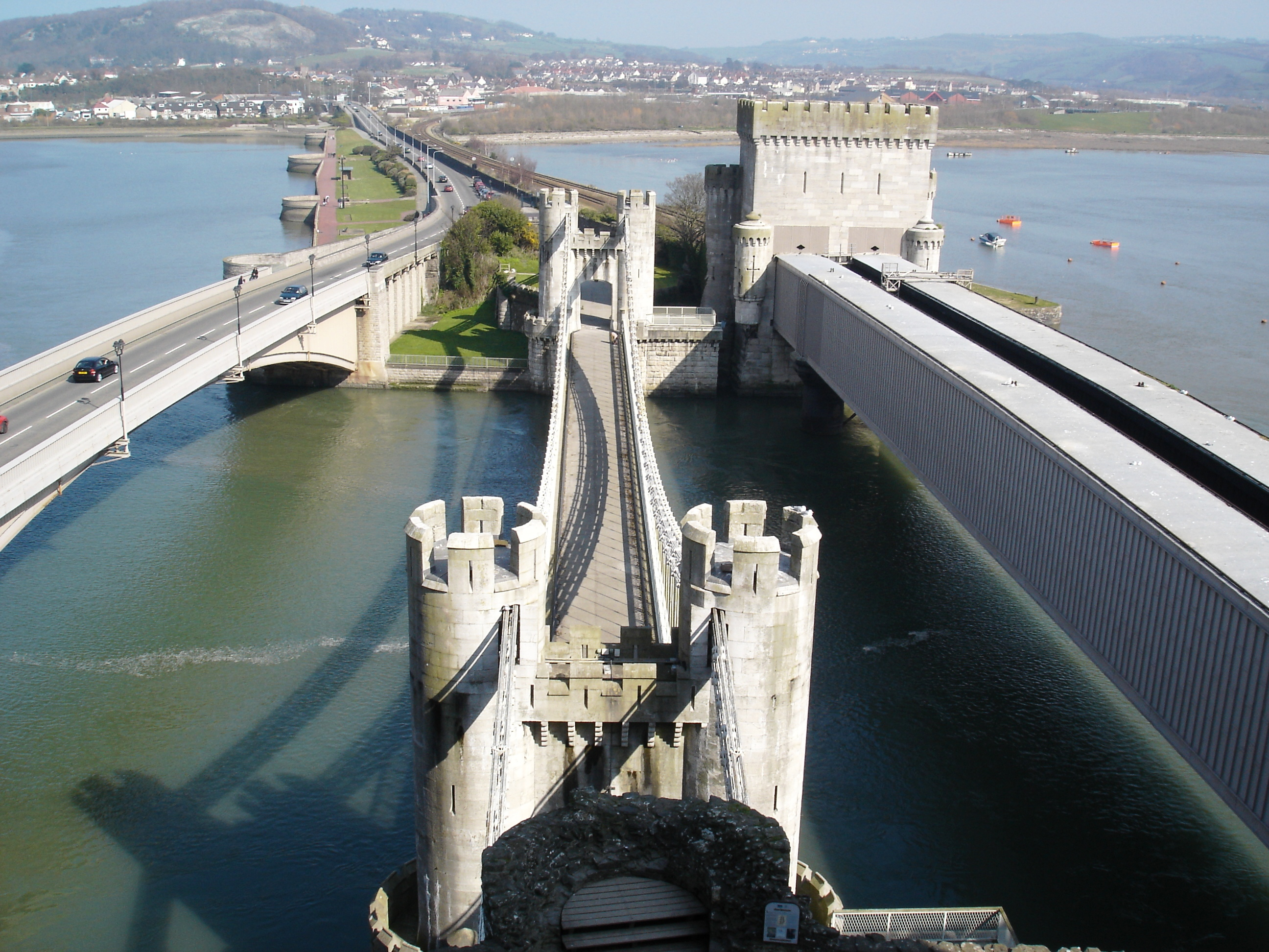 Thomas Telford's Suspension Bridge above the River Conwy as seen from Conwy Castle, with the rail bridge to the right and the new road bridge to the left